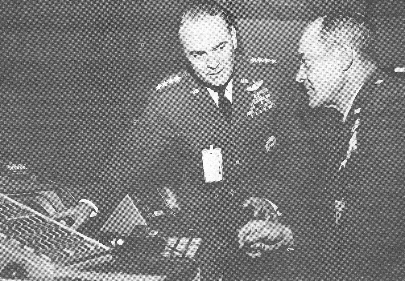 Original caption: SWORD AND SHIELD -- Gen. Raymond J. Reeves (left), Commander in Chief, North American Air Defense Command, explains the workings of his command post to Gen. Joseph J. Nazzaro, Commander in Chief, Strategic Air Command. The two generals command the nation's sword and shield forces -- SAC's retaliatory bombers and missiles and NORAD's system of warning devices and defensive weapons. Department of Defense photo, scanned from Commander's Digest, 1967-12-30, page 2.